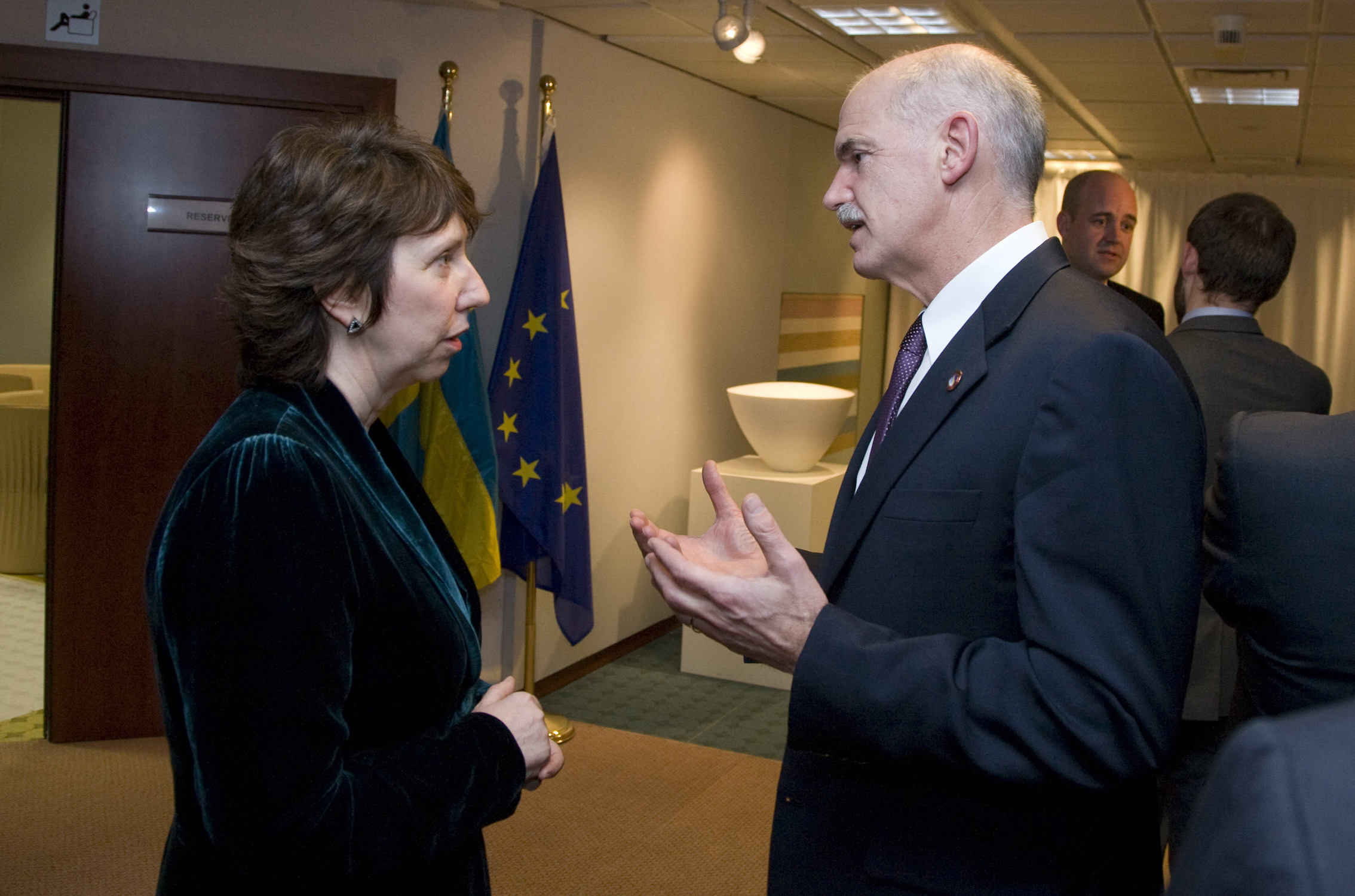 Catherine Ashton - George Papandreou